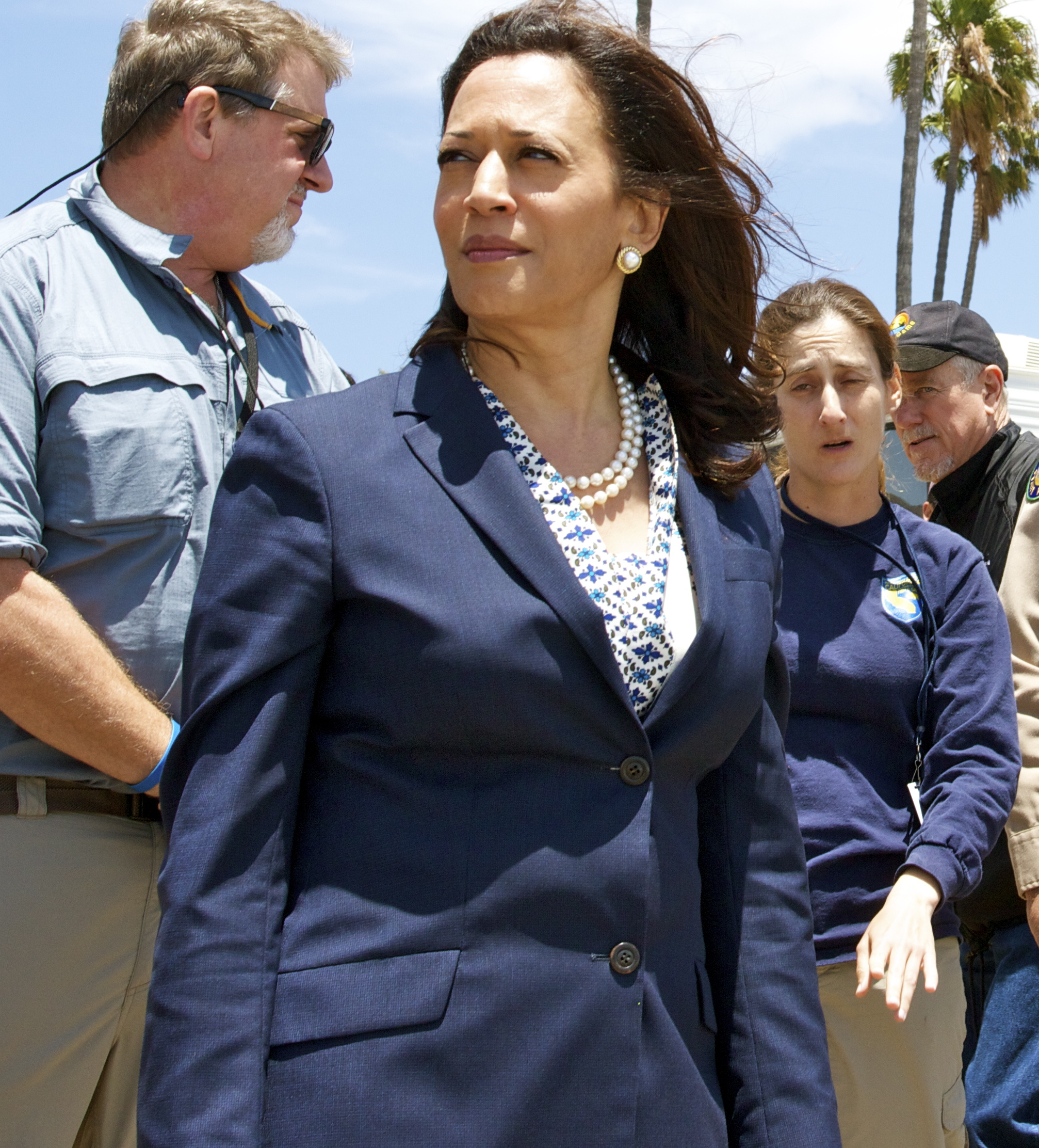 Attorney General Kamala D. Harris tours the clean up efforts at the Refugio State Beach and surrounding area affected by May 19th's oil spill.